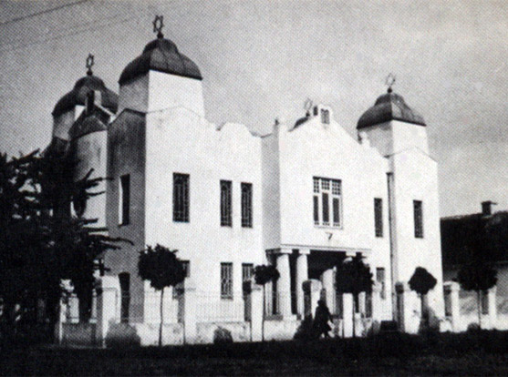 Synagogue in Vrbas that was destroyed in 1948